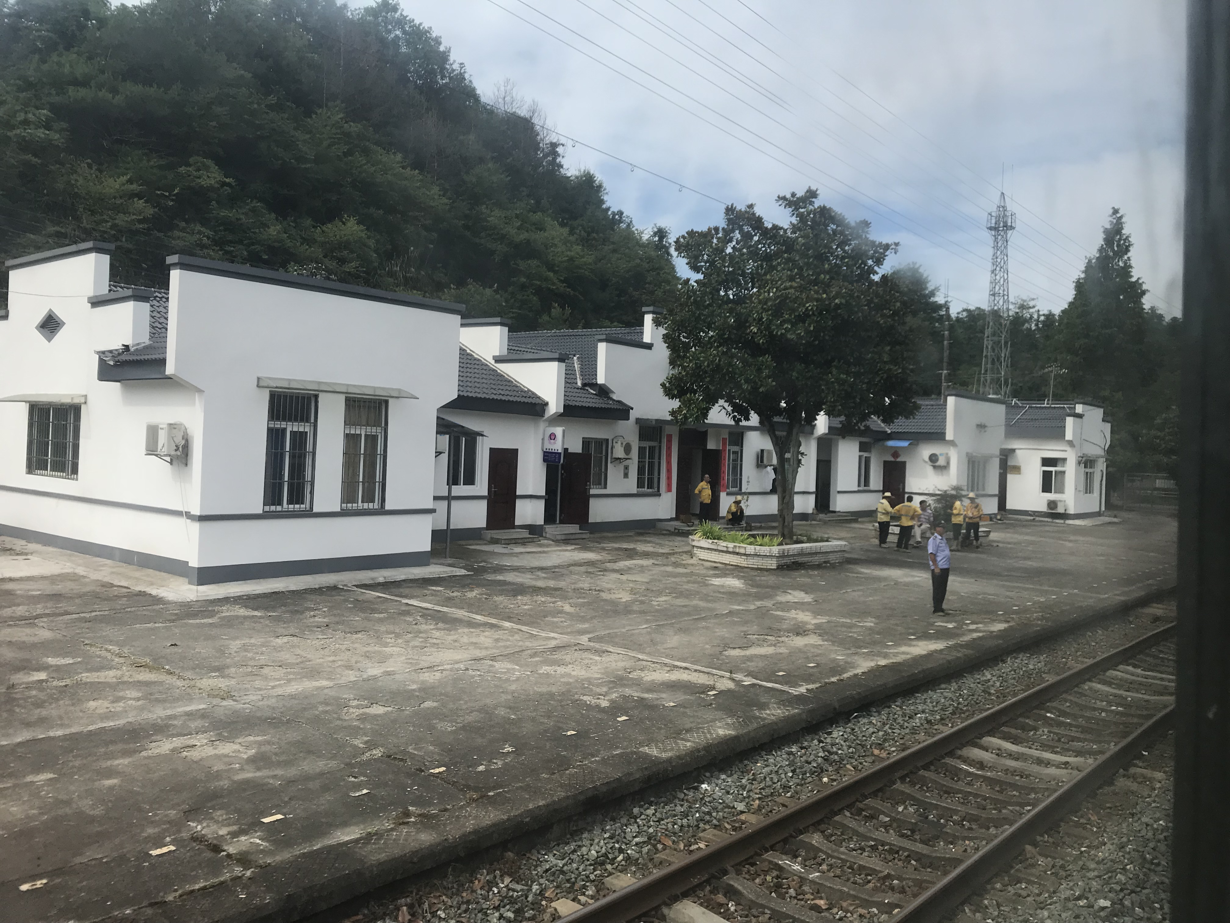 201806 Station Building of Houtan Railway Station